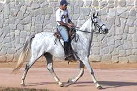 Triple hoof gait moment shot. Mangalarga Marchador mare named Godiva Quitumba. ""Picture shot by:"" Pbicalho ""Owner:"" Pbicalho ""Date taken:"" 1999 ""Origin:"" Rancho Haras Quitumba archive.